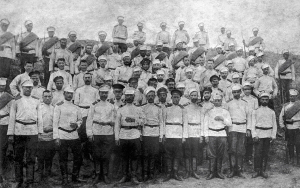 Sappers of the 1st and 2nd Turkestan's Sapper's battalions, the participants of events on July, 1st, 1912